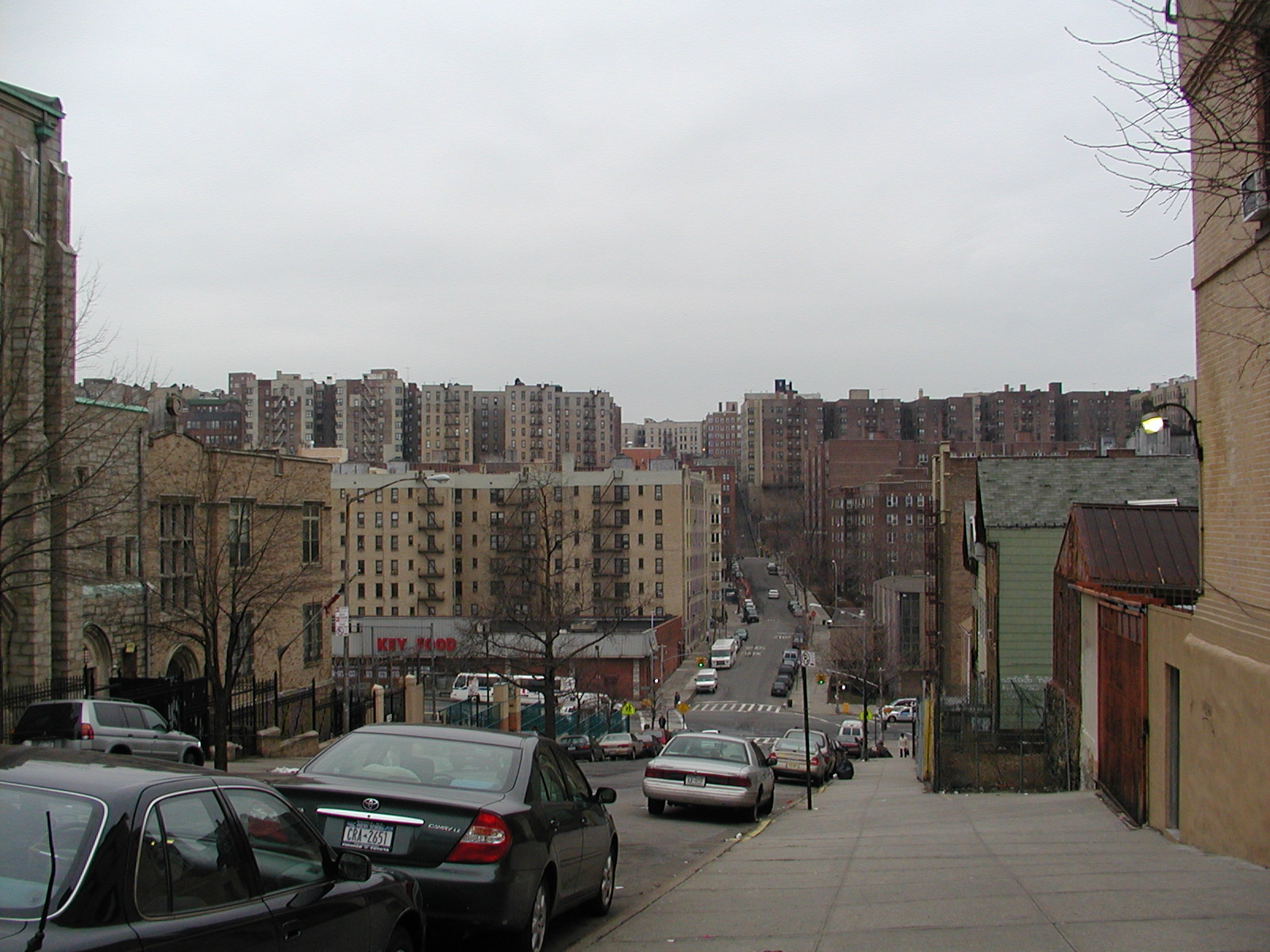 Washington Heights neighborhood in Manhattan, NYC. Seen from the east along 187th Street overlooking Broadway and Bennett Avenue in the valley below.